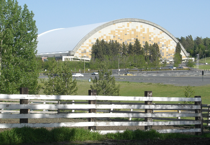 University of Idaho Moscow Idaho Kibbie Dome - West face Photographer: Robbie Giles 2007-05-15 Robbie Giles 01:31, 16 May 2007 (UTC)